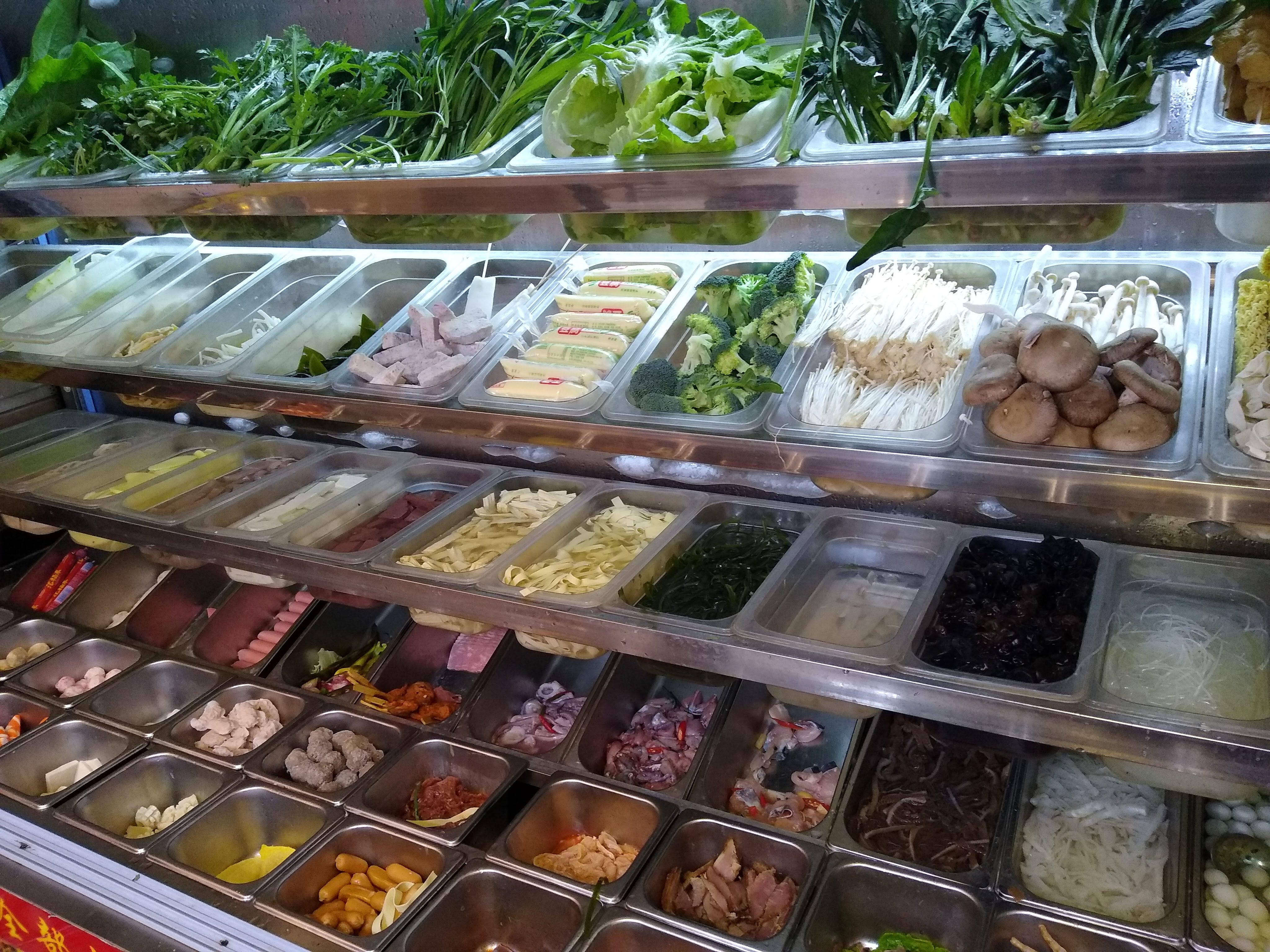 A branch of the maocai restaurant Chuánqí Màocài in Shenzhen.